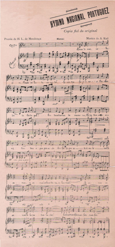 Copy of the original sheet music of the national anthem of Portugal, "A Portuguesa".